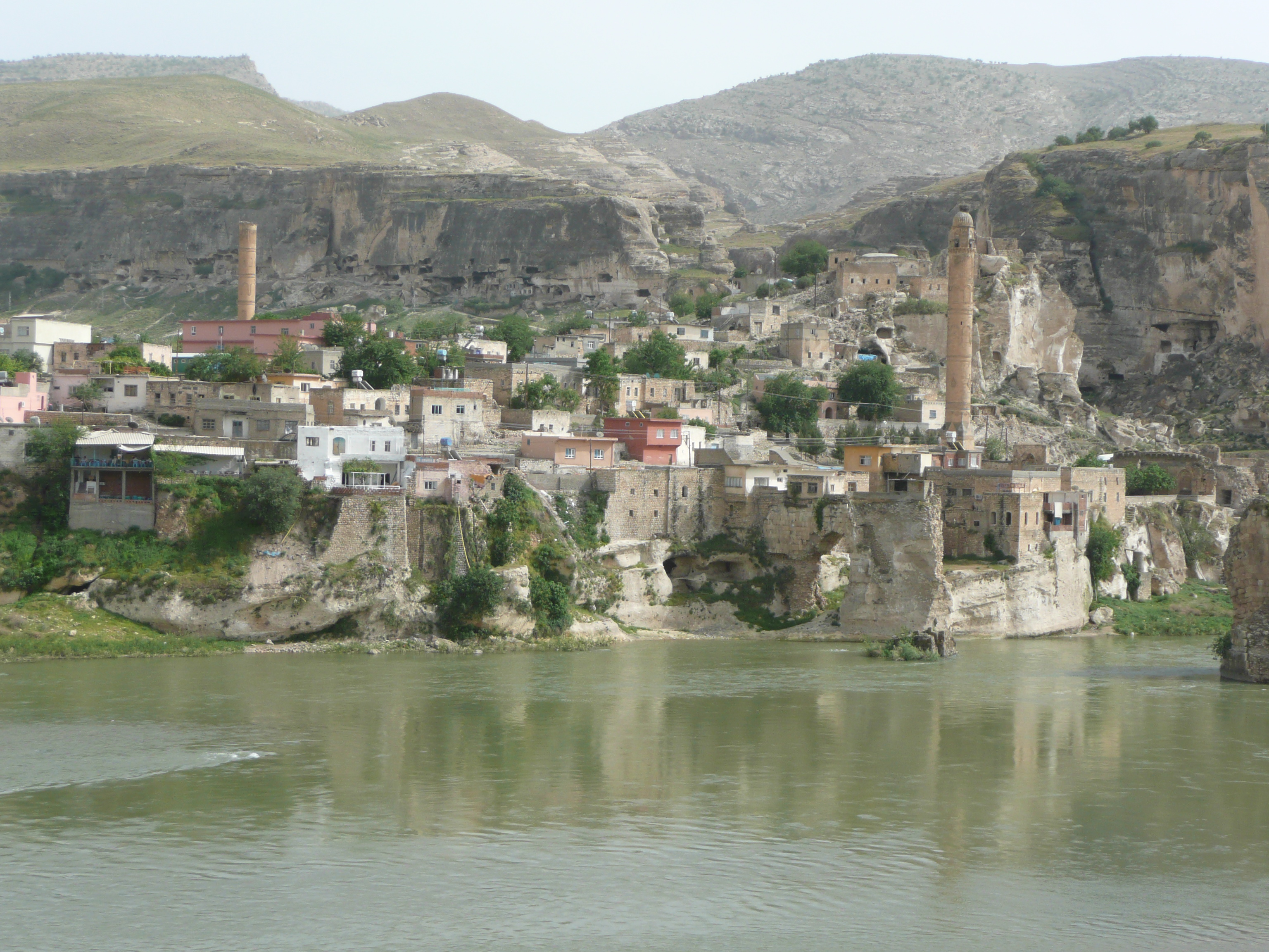 Photographs from Hasankeyf, Batman, Turkey